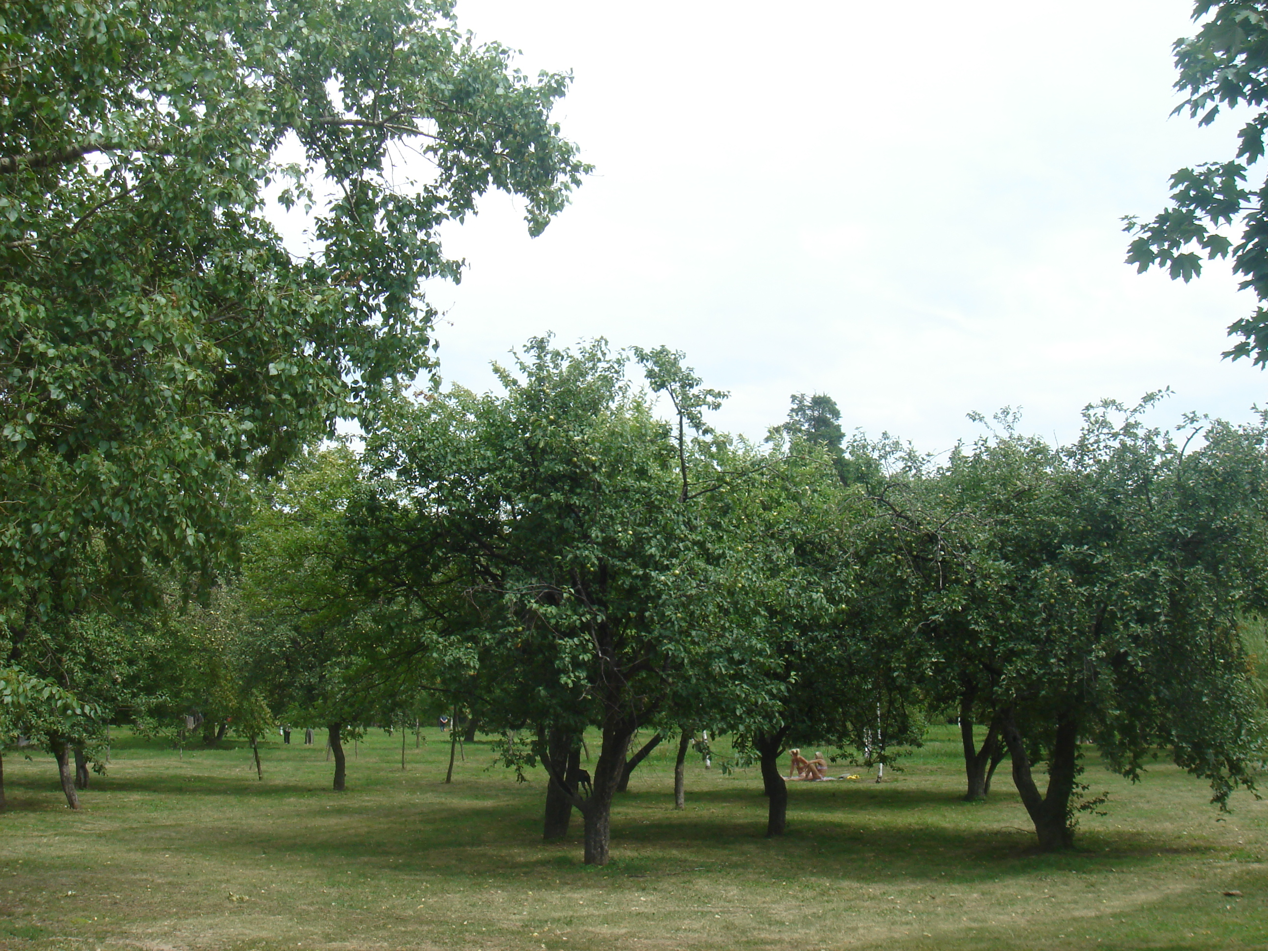 Moscow. Losinoostrovsky district. Orchard